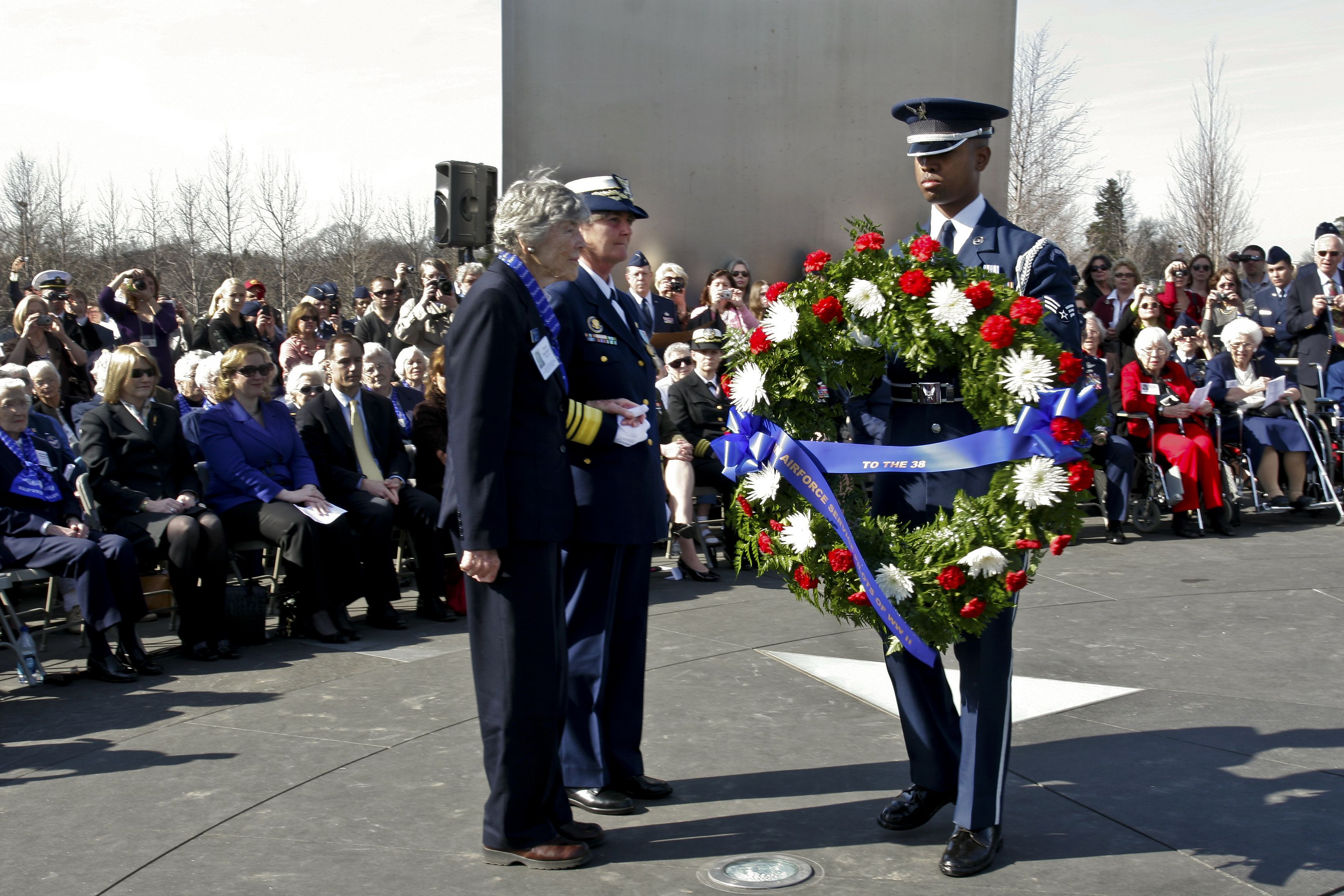 Retired Air Force Brig. Gen. Linda McTague, the first woman to command an Air National Guard wing, center, and Dawn Seymour, a World War II woman pilot who flew with Women Airforce Service Pilots, receive a wreath to honor all 1,102 of the women service pilots at the Air Force Memorial in Arlington, Va., March 9, 2010.